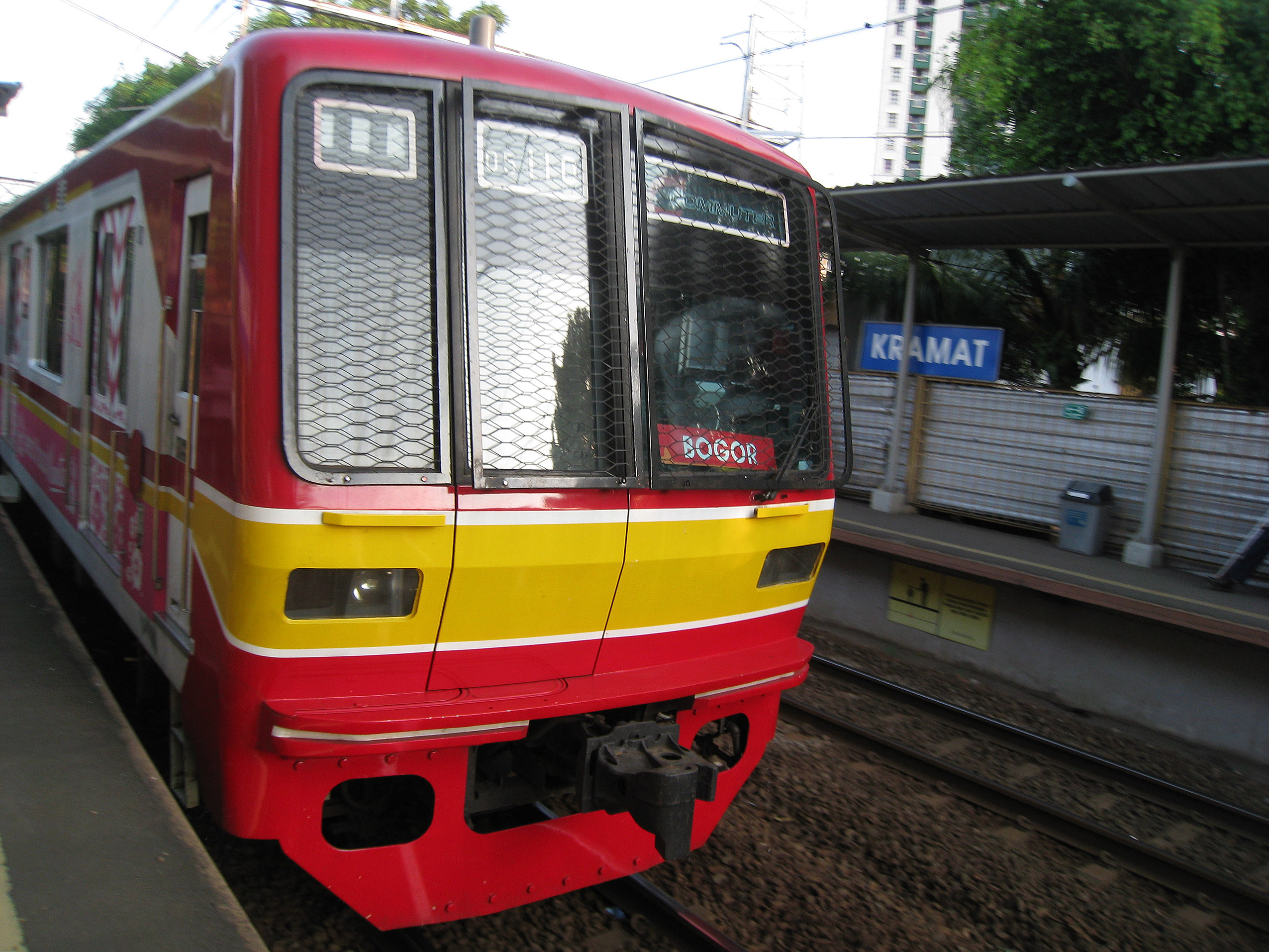 Commuterline electric train at Kramat Station, Central Jakarta, Indonesia.